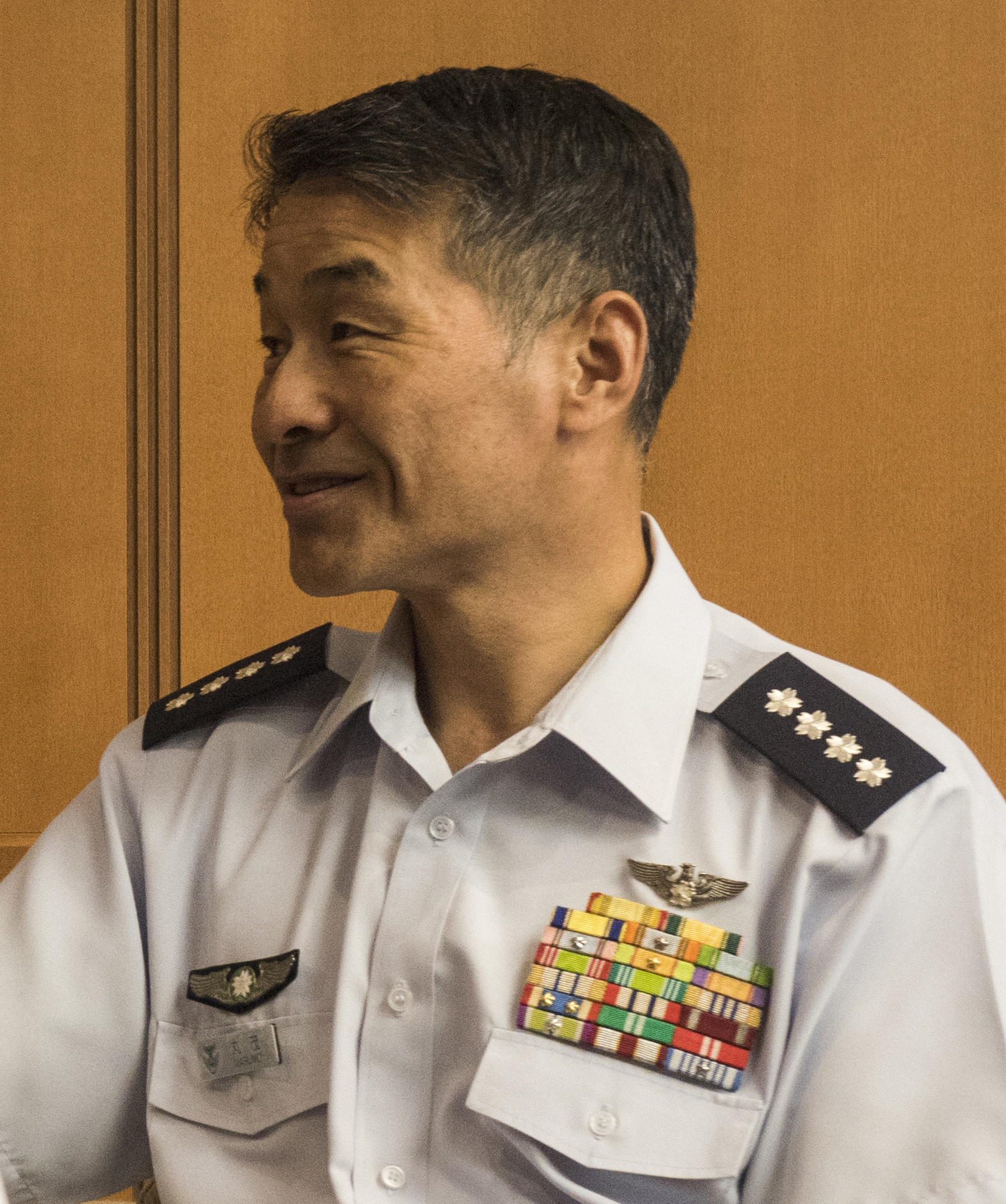 Koku Jieitai Gen. Yoshinari Marumo, Koku Jieitai chief of staff